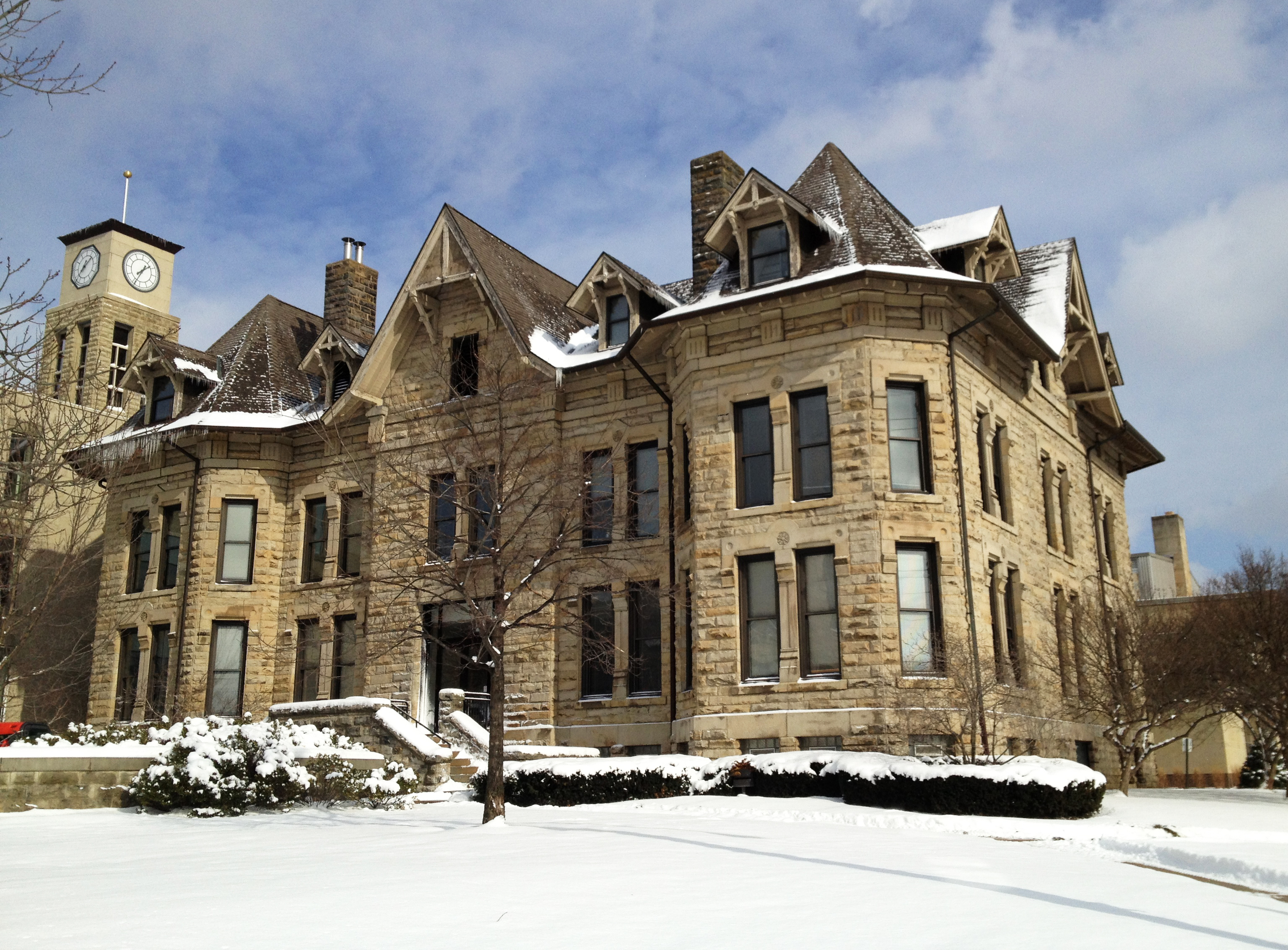 Carnegie part of the Malicky Center on Baldwin Wallace University North Campus